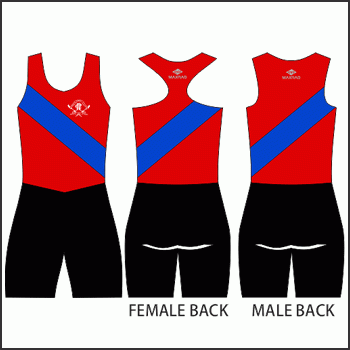 Uniform of the Ottawa Rowing Club